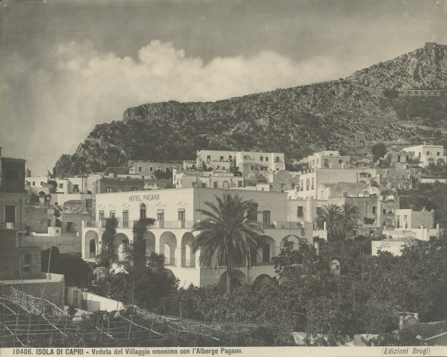 Carlo Brogi (1850-1925) - "Island of Capri - View upon Capri village, with Hotel Pagano". Catalogue # 10.406.